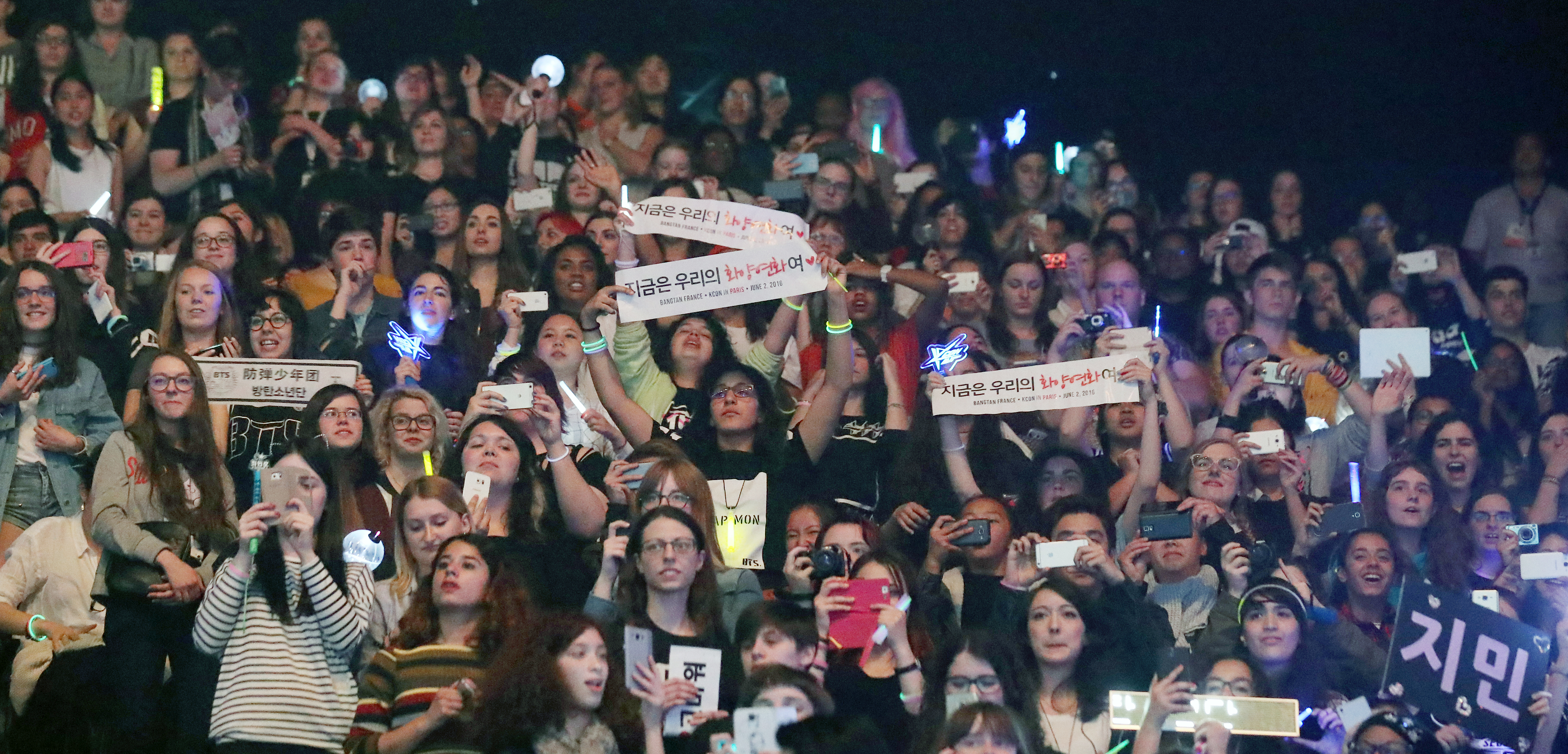 K-CON Concert in Paris